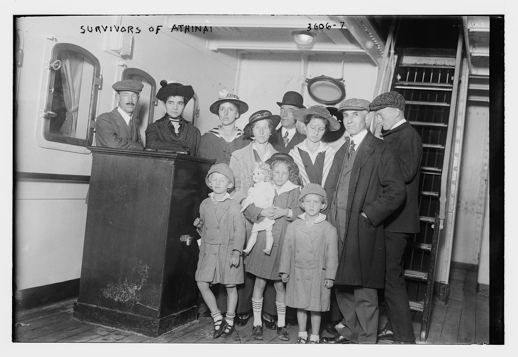 SS Athinai (1908) survivors